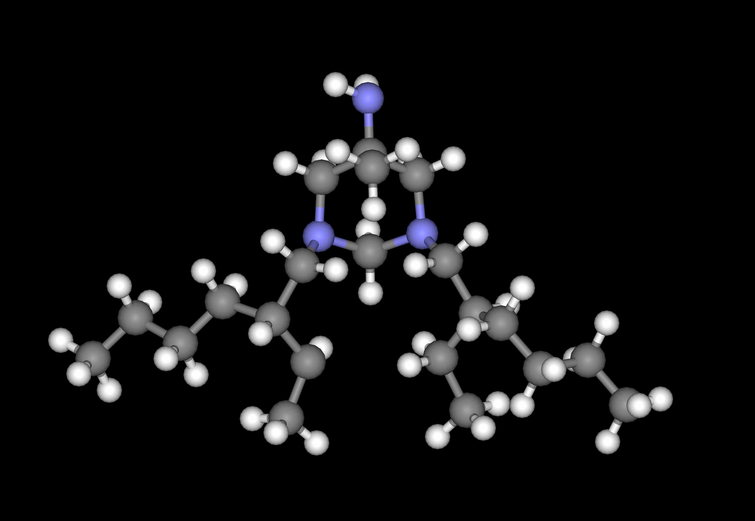 Molecule of hexetidine